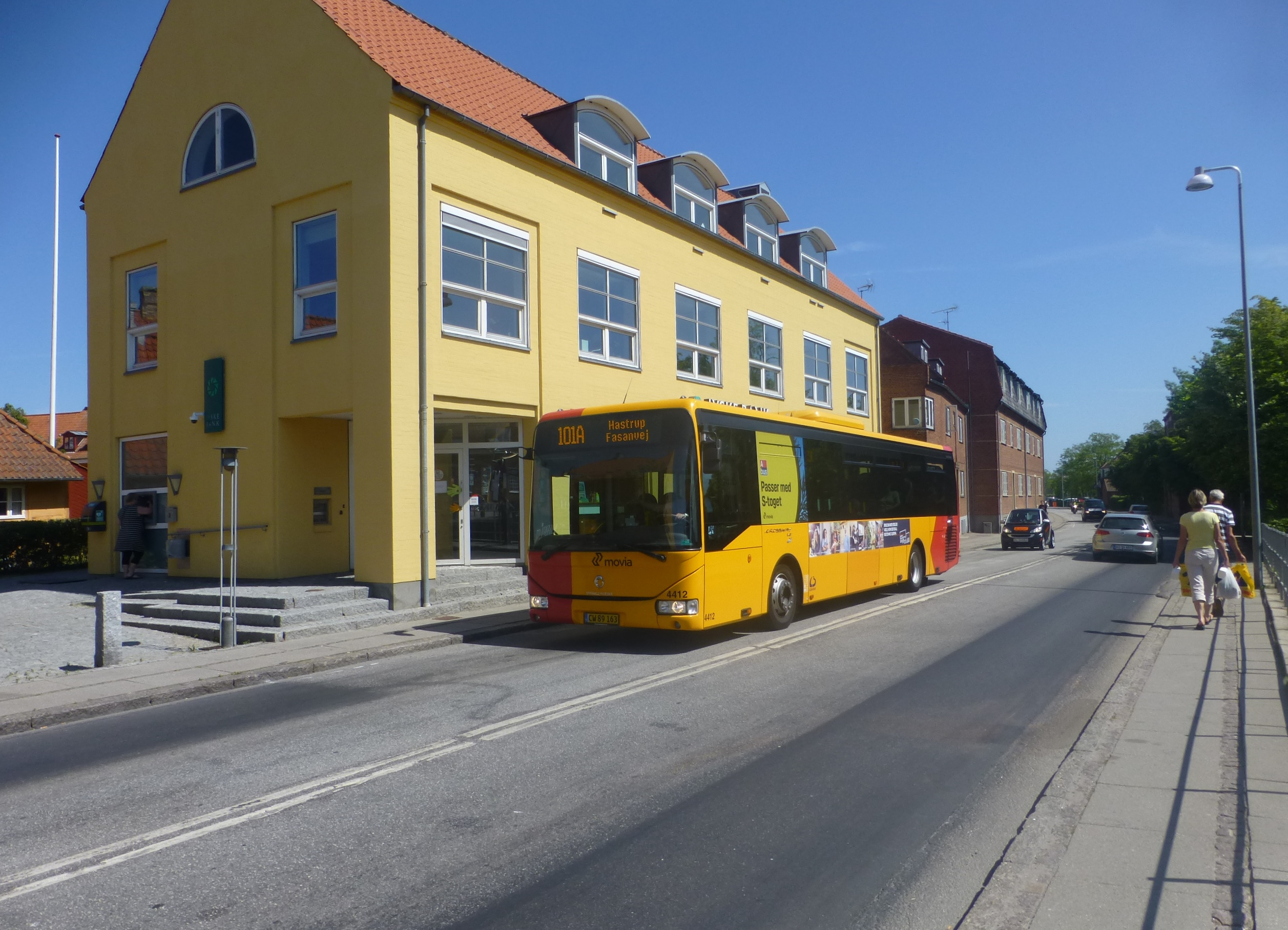 Movia bus line 101A on Fændediget in Køge in Denmark.